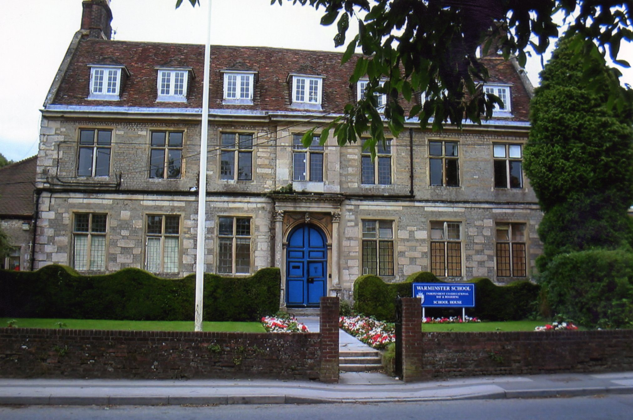 School House, the original home of the Lord Weymouth's Grammar School.